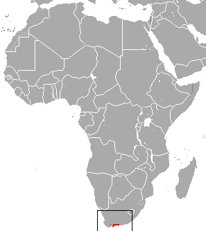 Long-tailed Forest Shrew (Myosorex longicaudatus) range